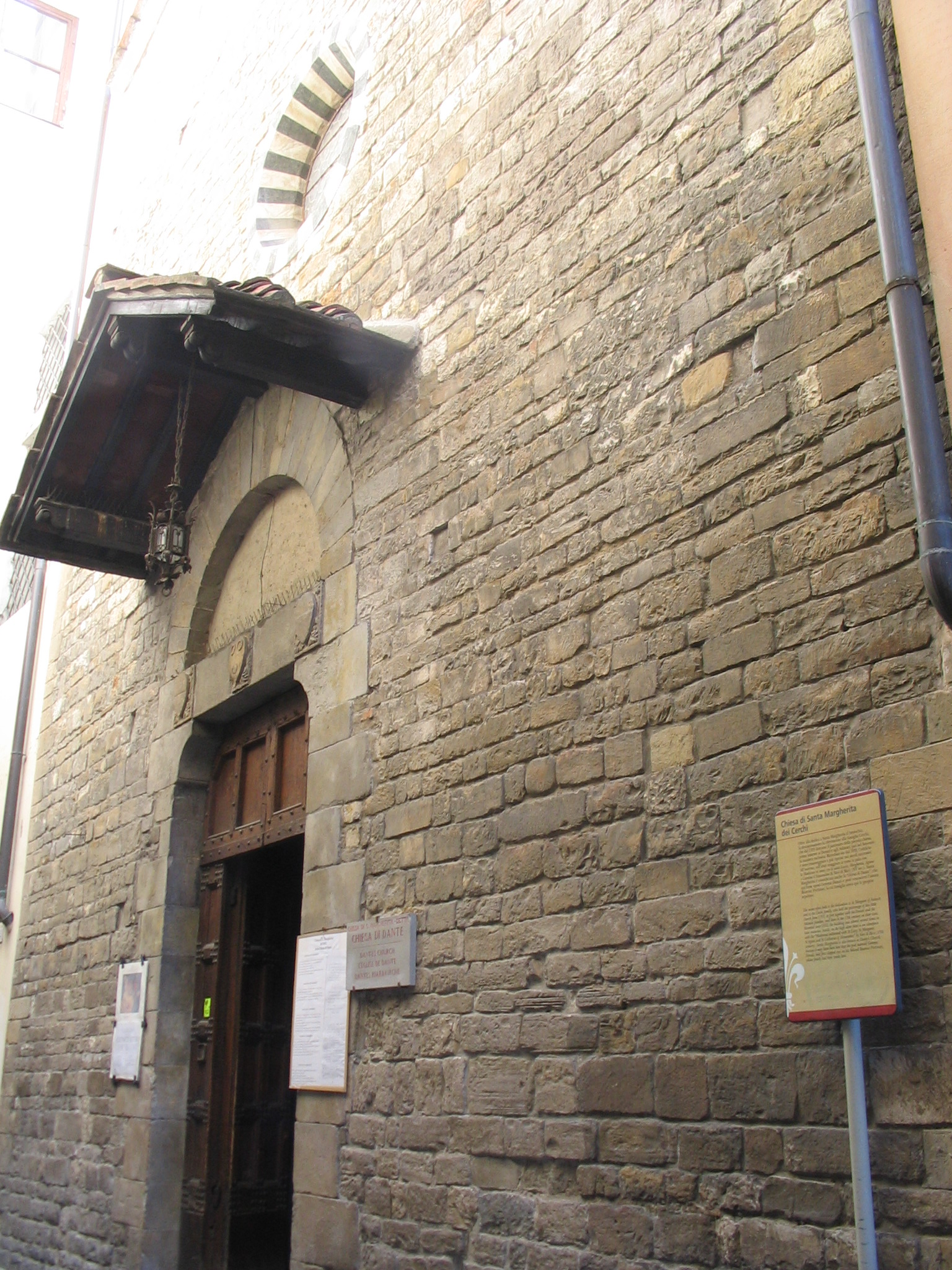 Beatrice used to pray at Santa Margherita de' Cerchi where she is interred